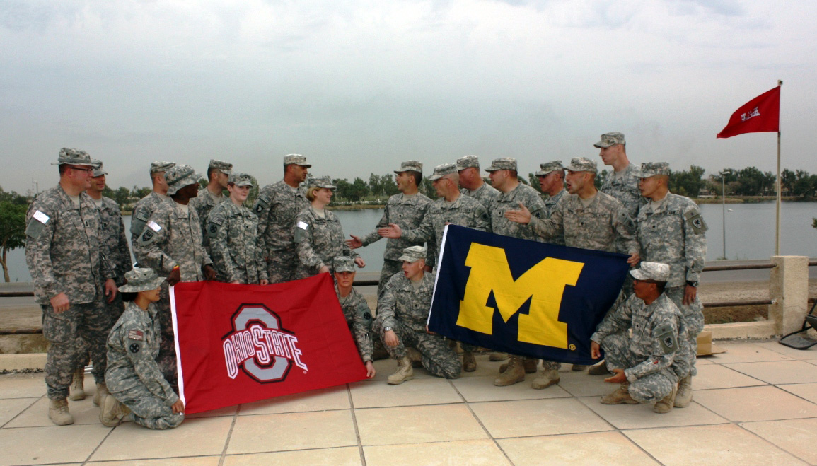 Soldiers from the 16th Engineer Brigade practice their "trash talk" at Camp Liberty, Nov. 16, 2009 in preparation for one of the biggest games of the year in college football, the University of Michigan vs. The Ohio State University. (Photo courtesy of Multi-National Division Baghdad)